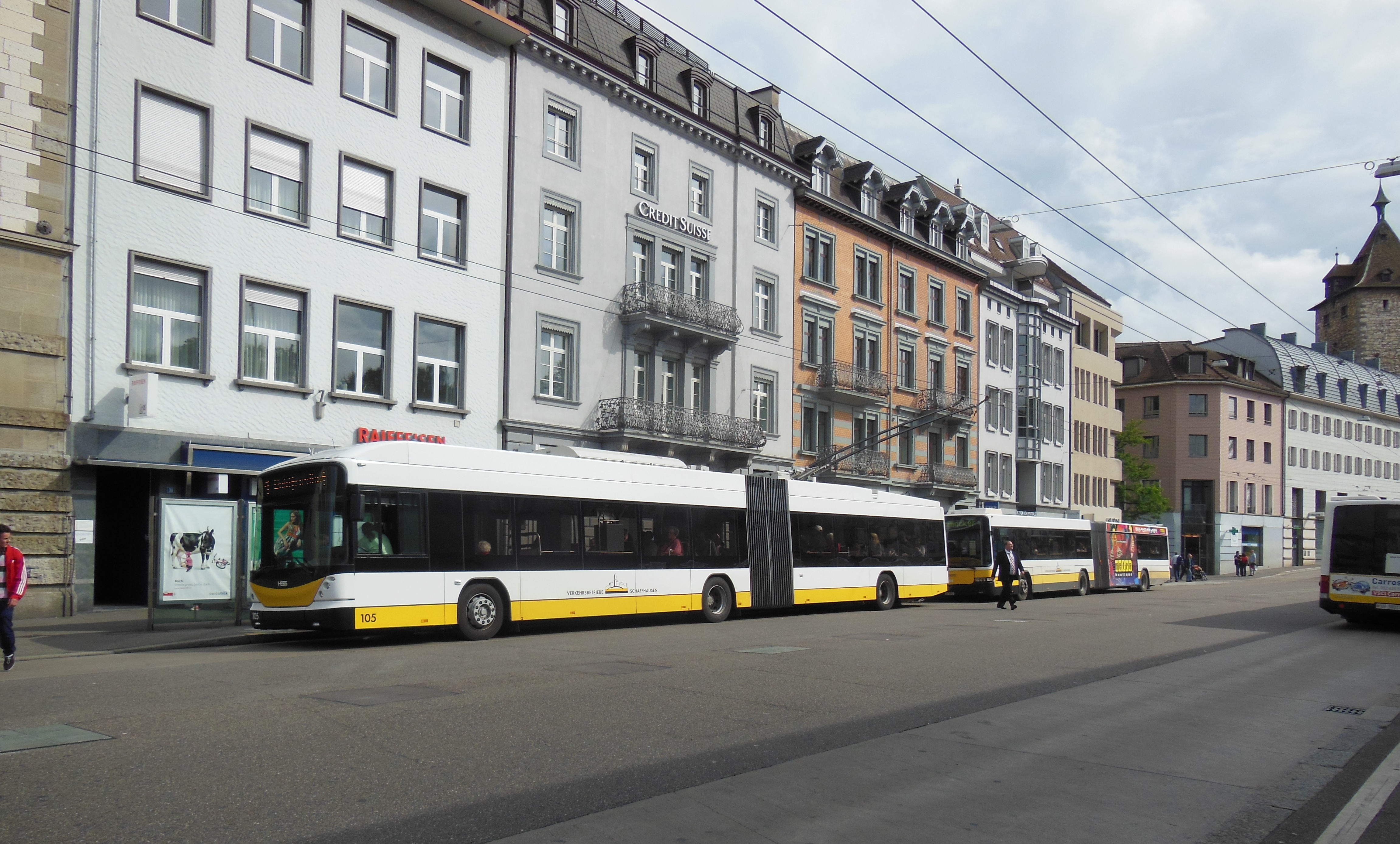 Trolleybus outside Schaffhausen railway station. For more information, see the Wikipedia article Schaffhausen railway station.